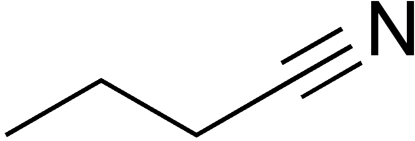 chemical structure of butyronitrile